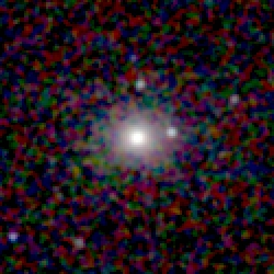 NGC 1989